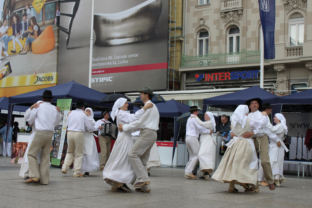 The clogs are called 'cokle' in Slovenian